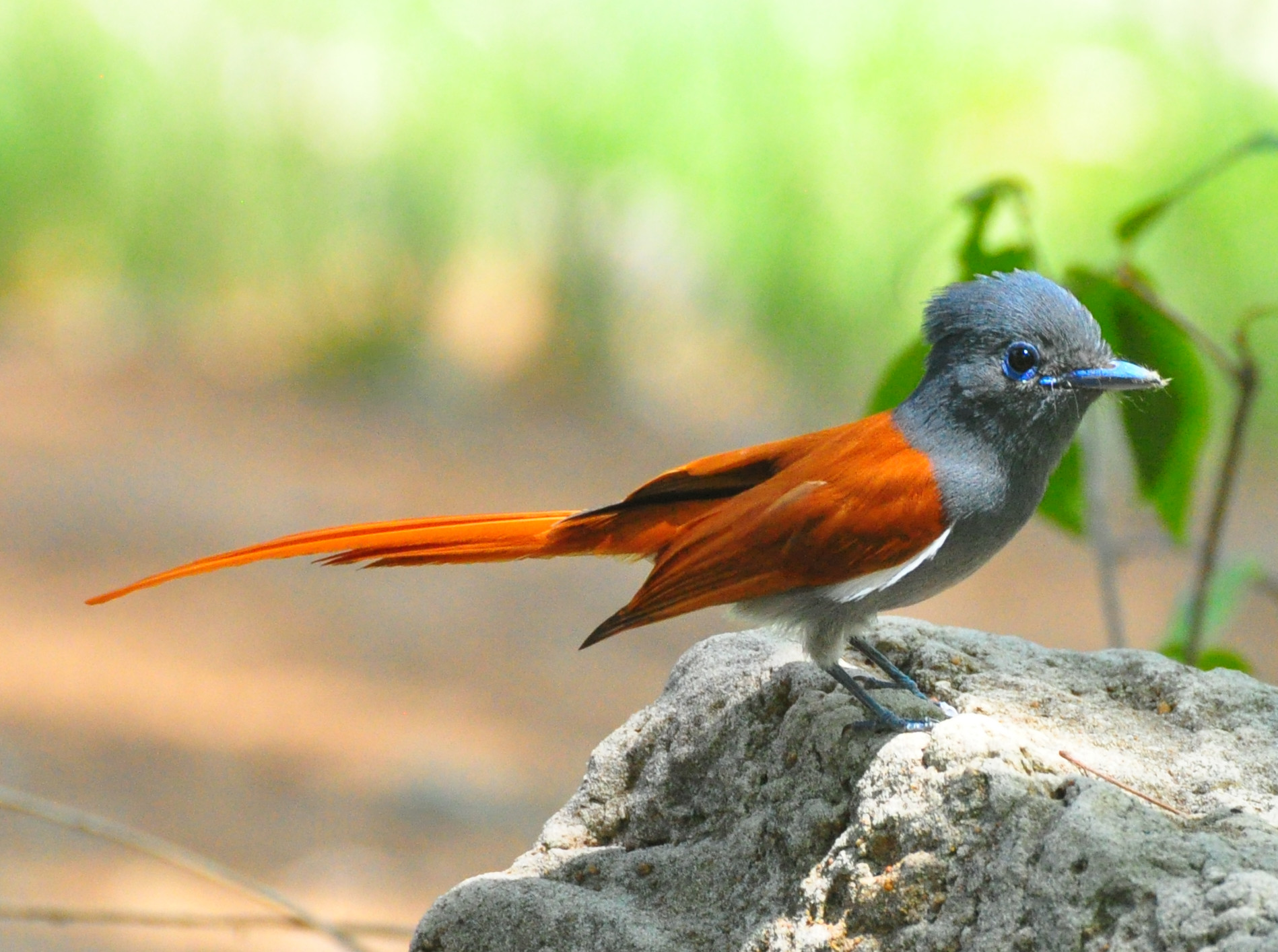 Terpsiphone viridis - African Paradise Flycatcher, Popa Falls, Okavango, Namibia